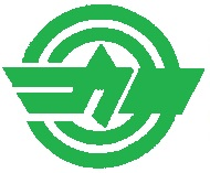 Kasamatsu Gifu chapter